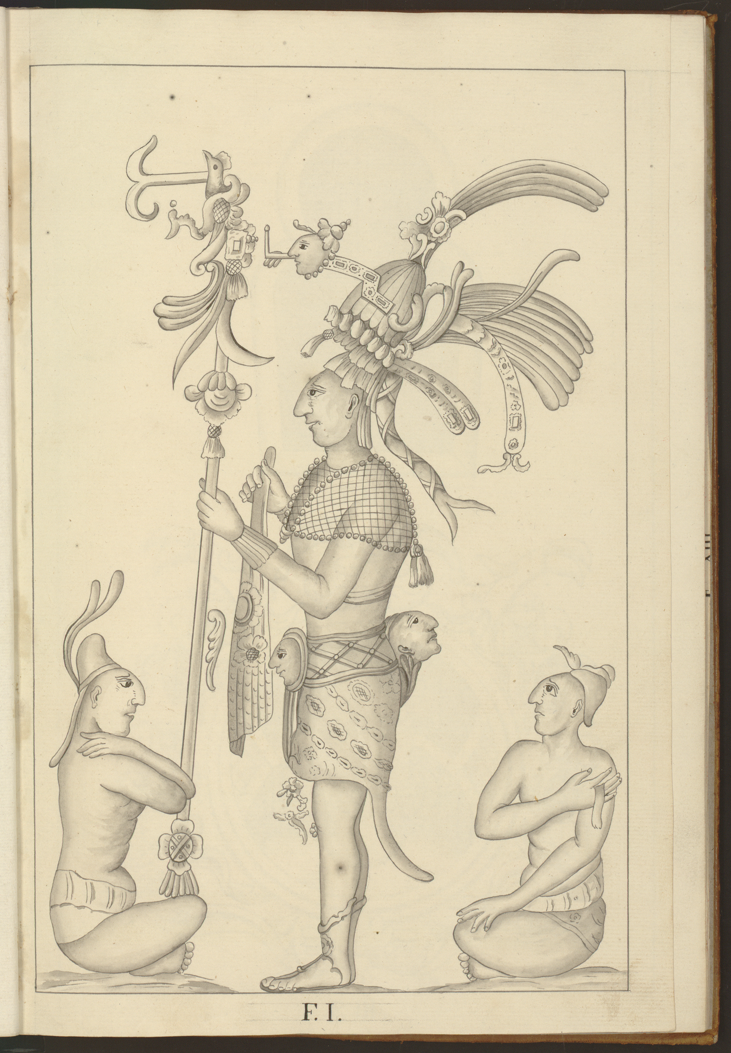 Drawing from the Mayan ruins at Palenque at the time of its original excavation.